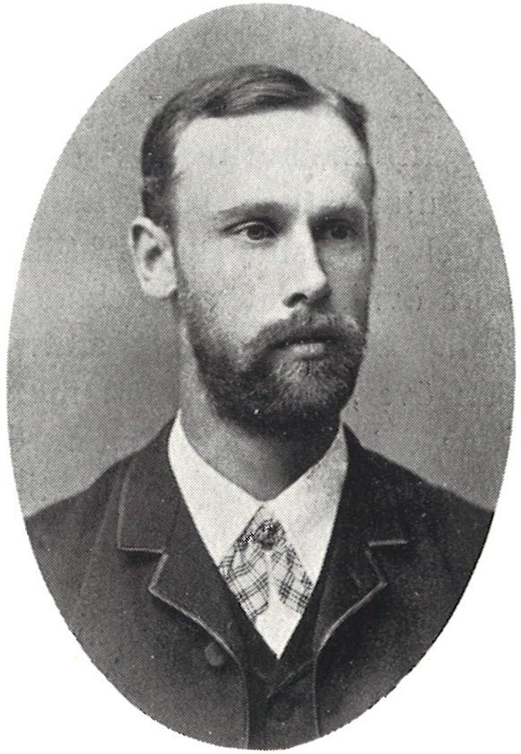 Svante Murbeck (1859-1946), Swedish botanist; professor and head of the Botanical garden at Lund University.